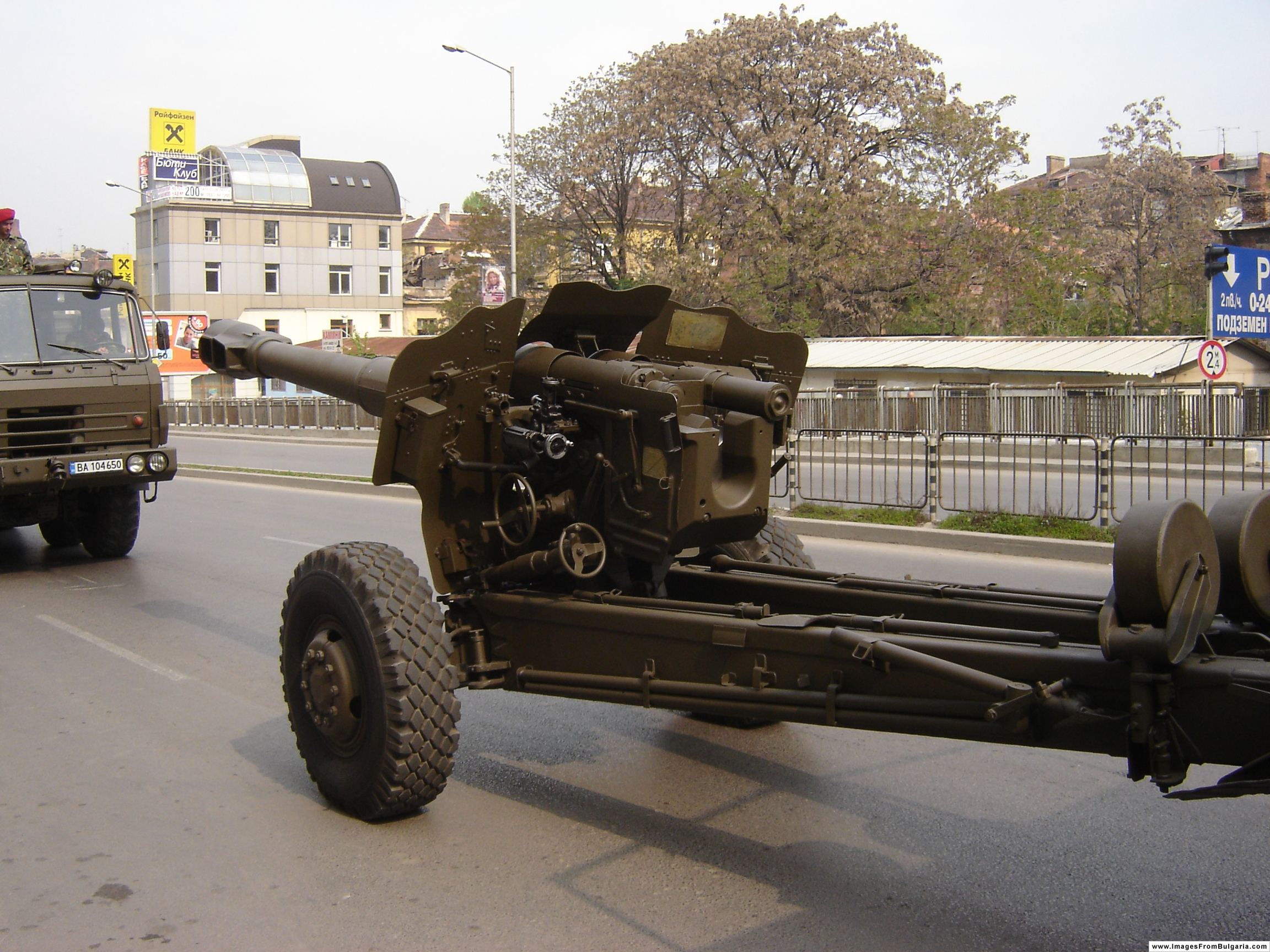 Artillery of the Bulgarian army, 2006 Army day parade preparations.